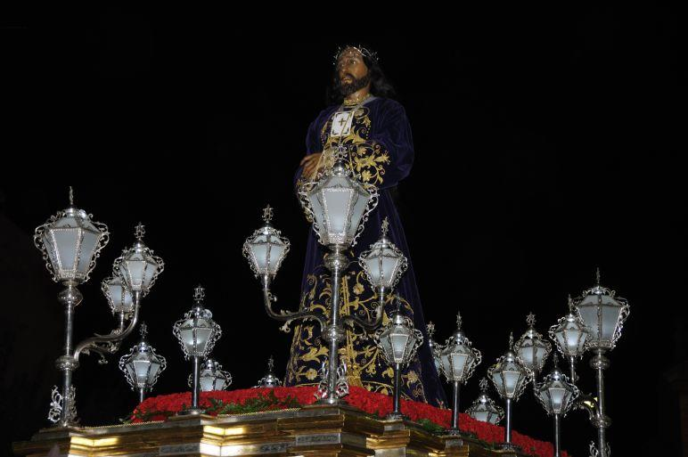 Jesús de Medinaceli